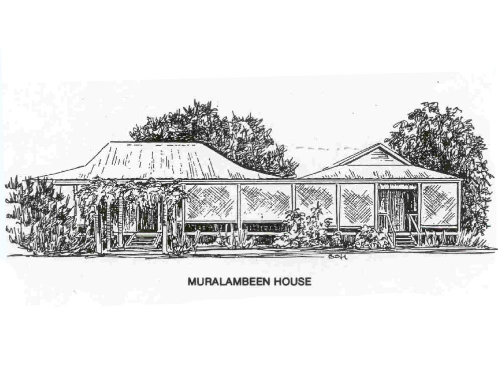 Muralambeen Homestead perspective sketch